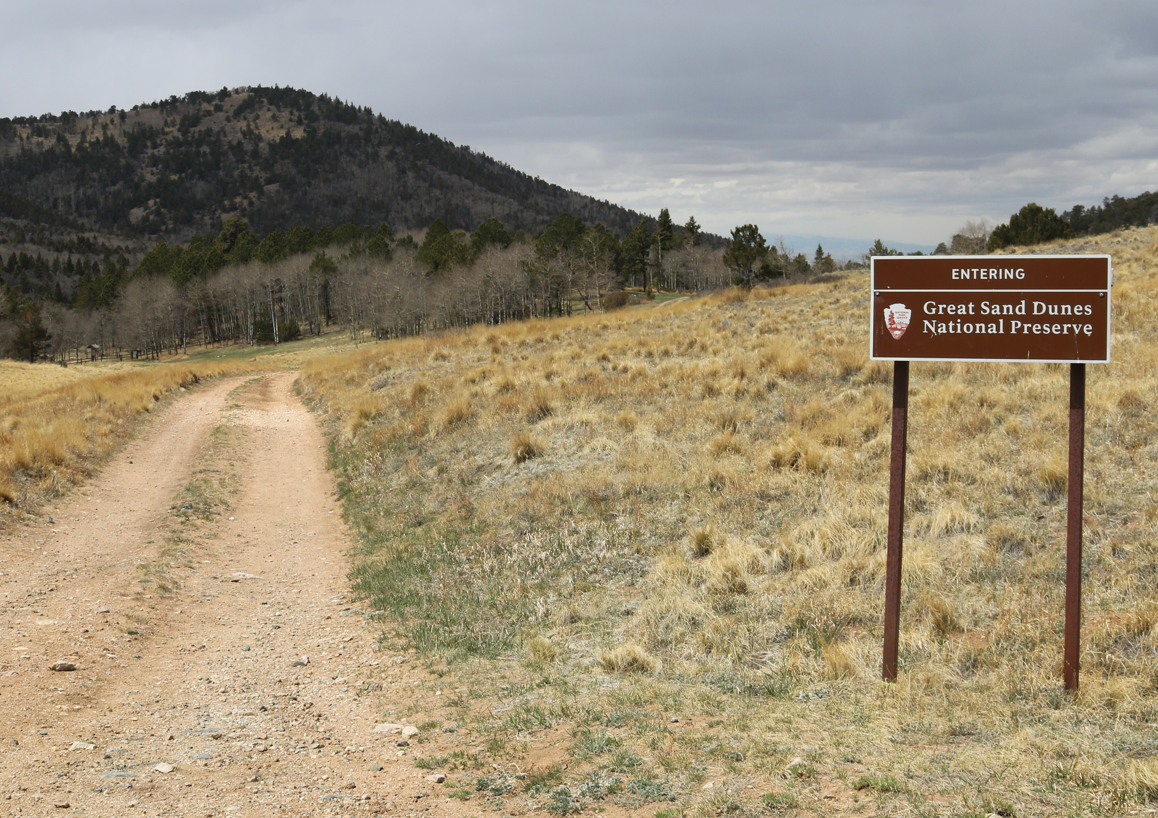 Looking down from the top of Mosca Pass, on the border between Alamosa County and Huerfano County atop the Sangre De Cristo Range in the Southern Rocky Mountains in Colorado. The view is towards the west and the top of the Mosca Pass Trail. The sign in the picture marks the eastern border of the Great Sand Dunes National Preserve.